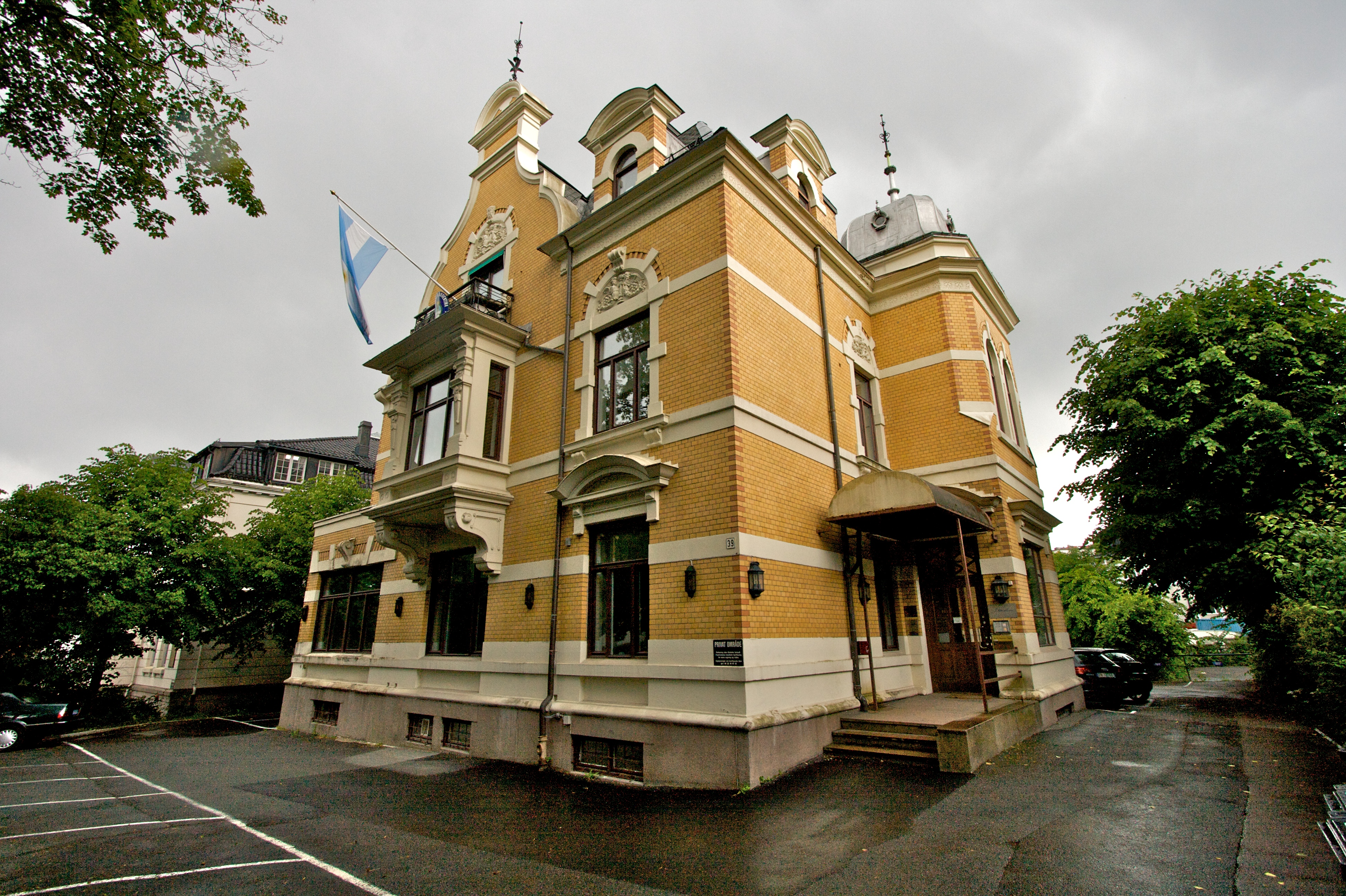 Argentinian Embassy, Oslo, Norway.